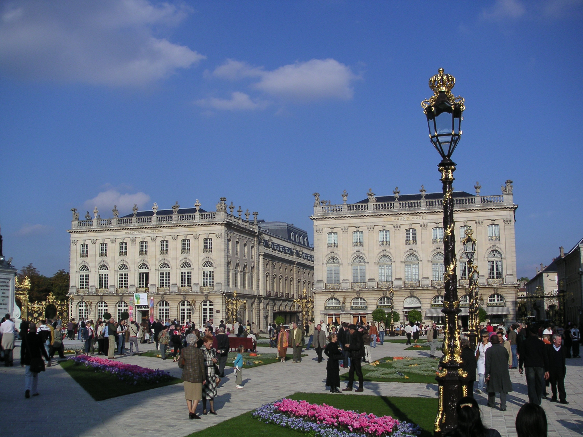 Place Stanislas, Place Stanislas Nancy by Moala